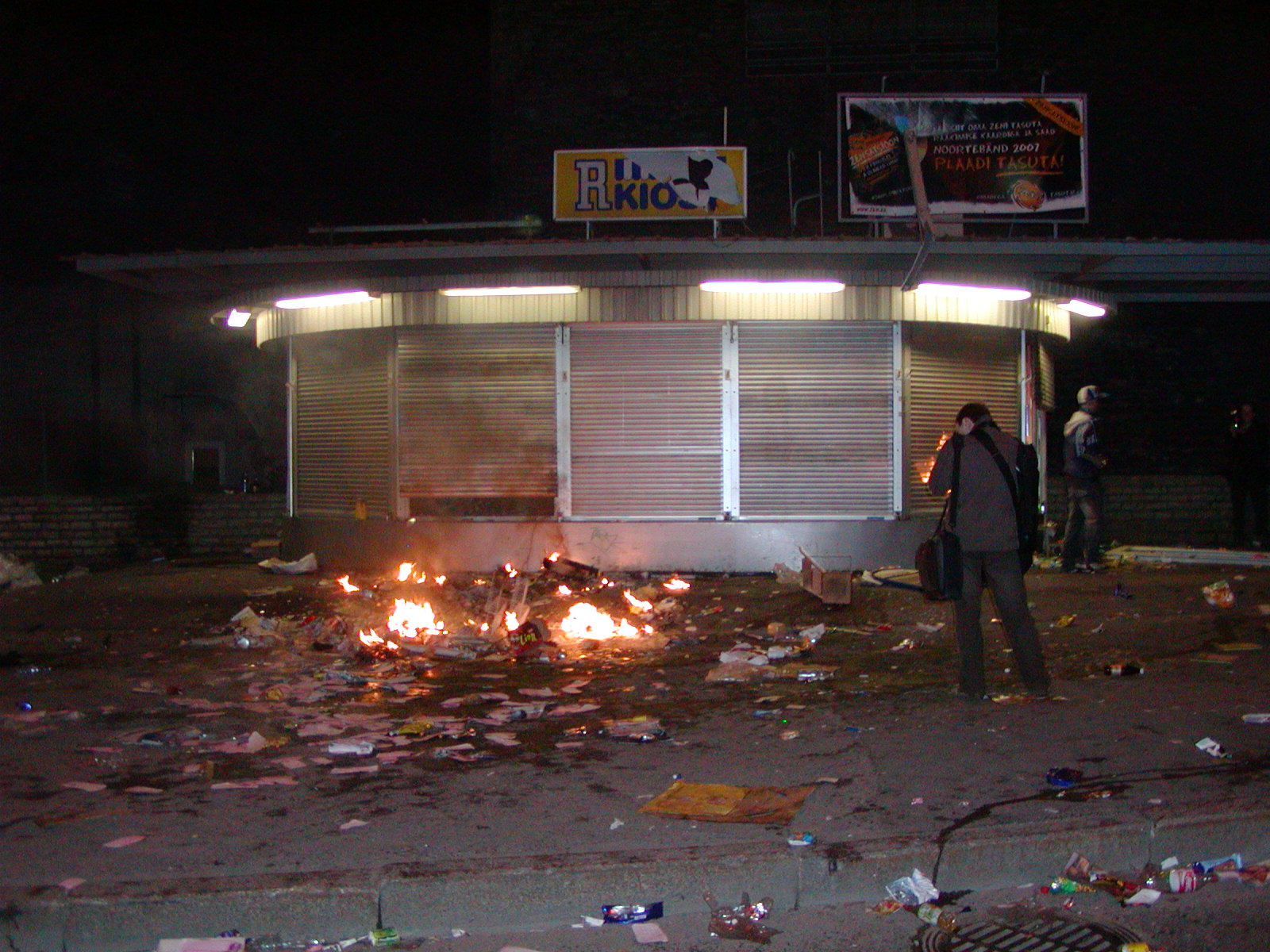 Protest against the demolition of the Bronze Soldier of Tallinn, a World War II memoral commemorating the libration of Estonia from Nazism by Soviet forces.